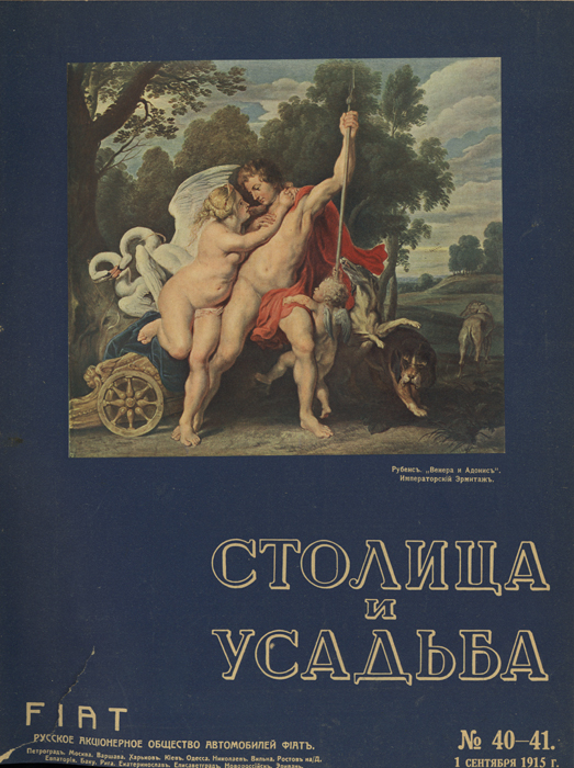 Cover of «Stolitsa and Usad'ba» Magazine (translated as «The Capital and Mansion»)